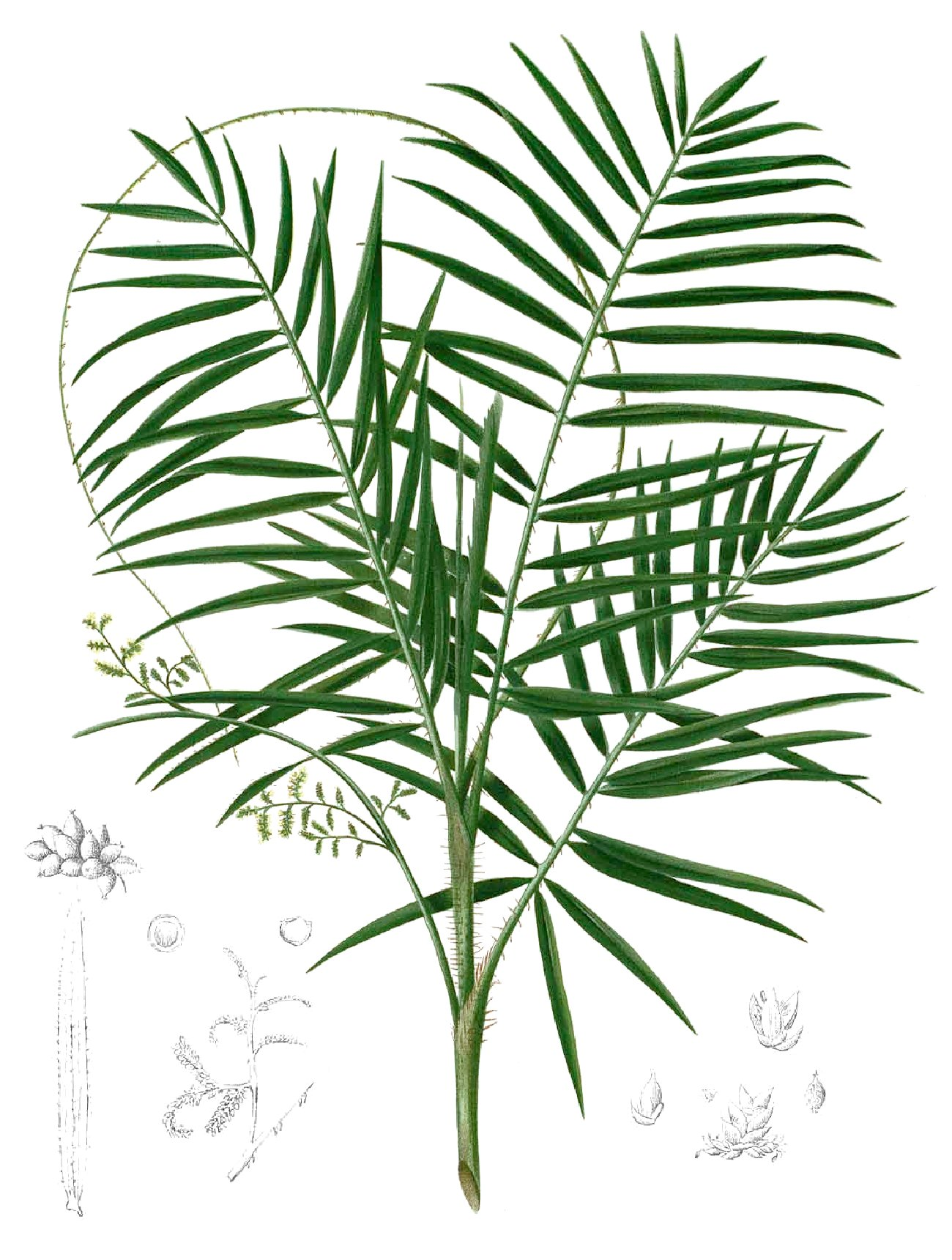 Plate from book